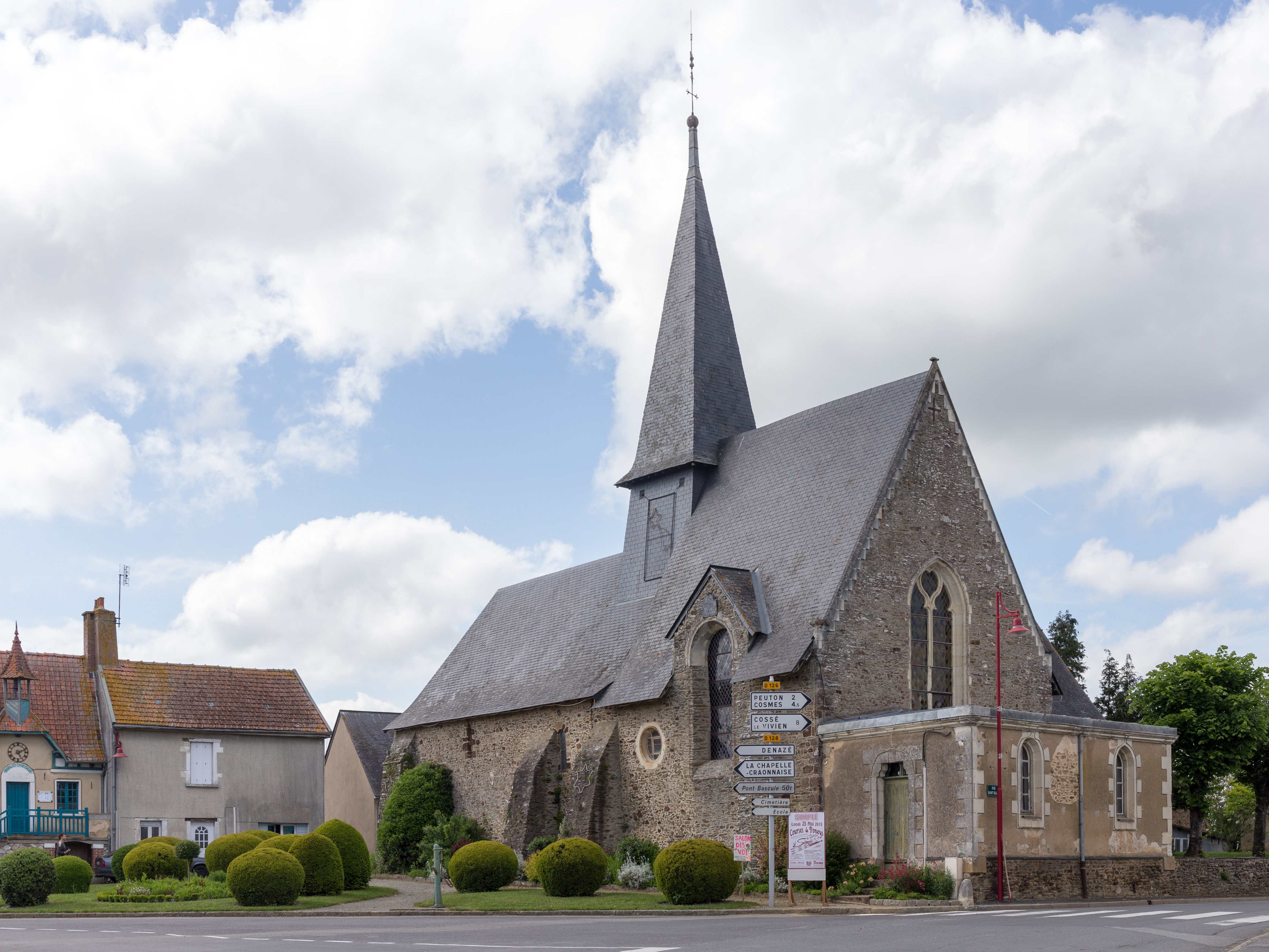 Church of Simplé.